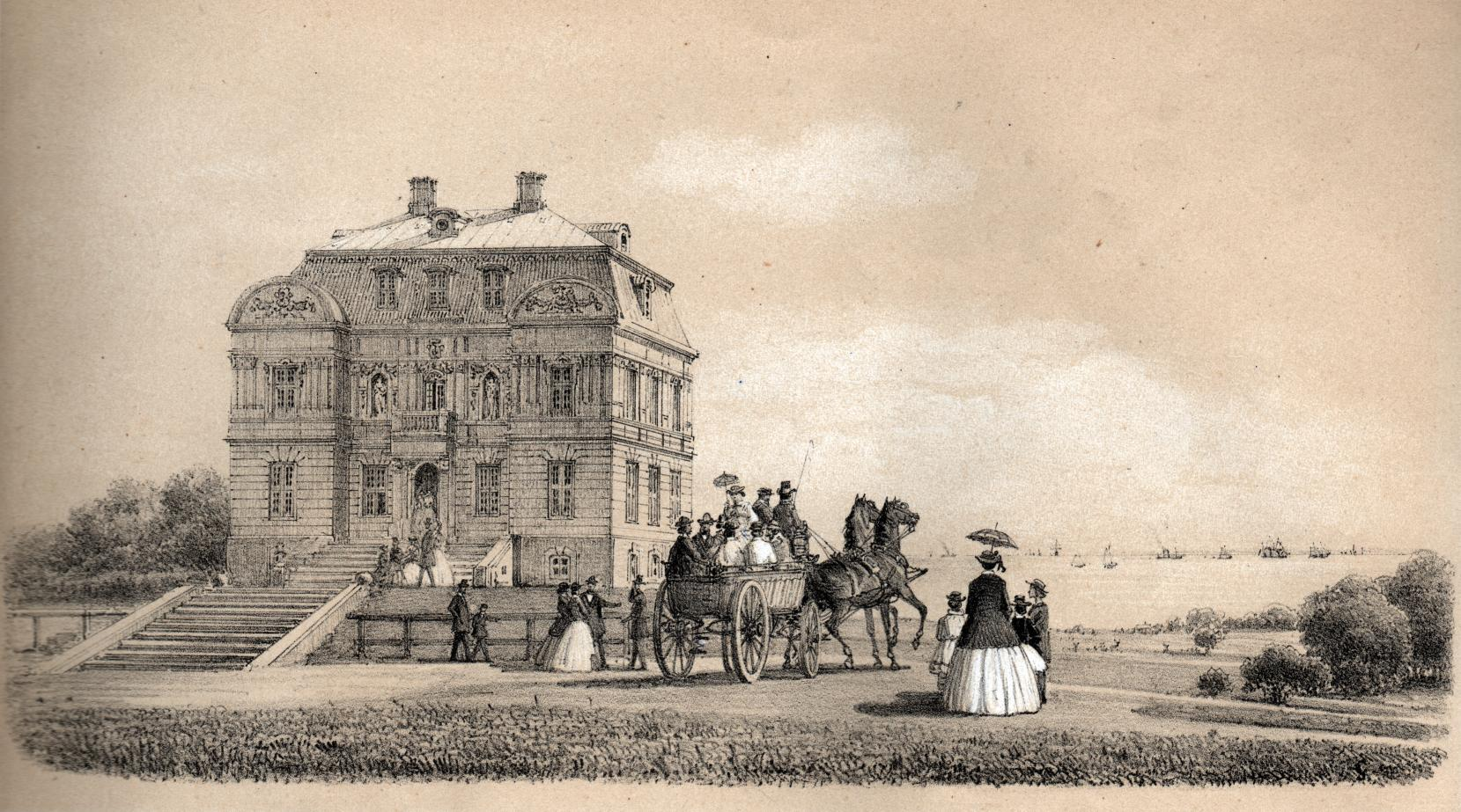 Scanned by myself from a copy of the old book in 2007. The book was graciously lent to me by Det Kongelige Garnisonsbibliotek.